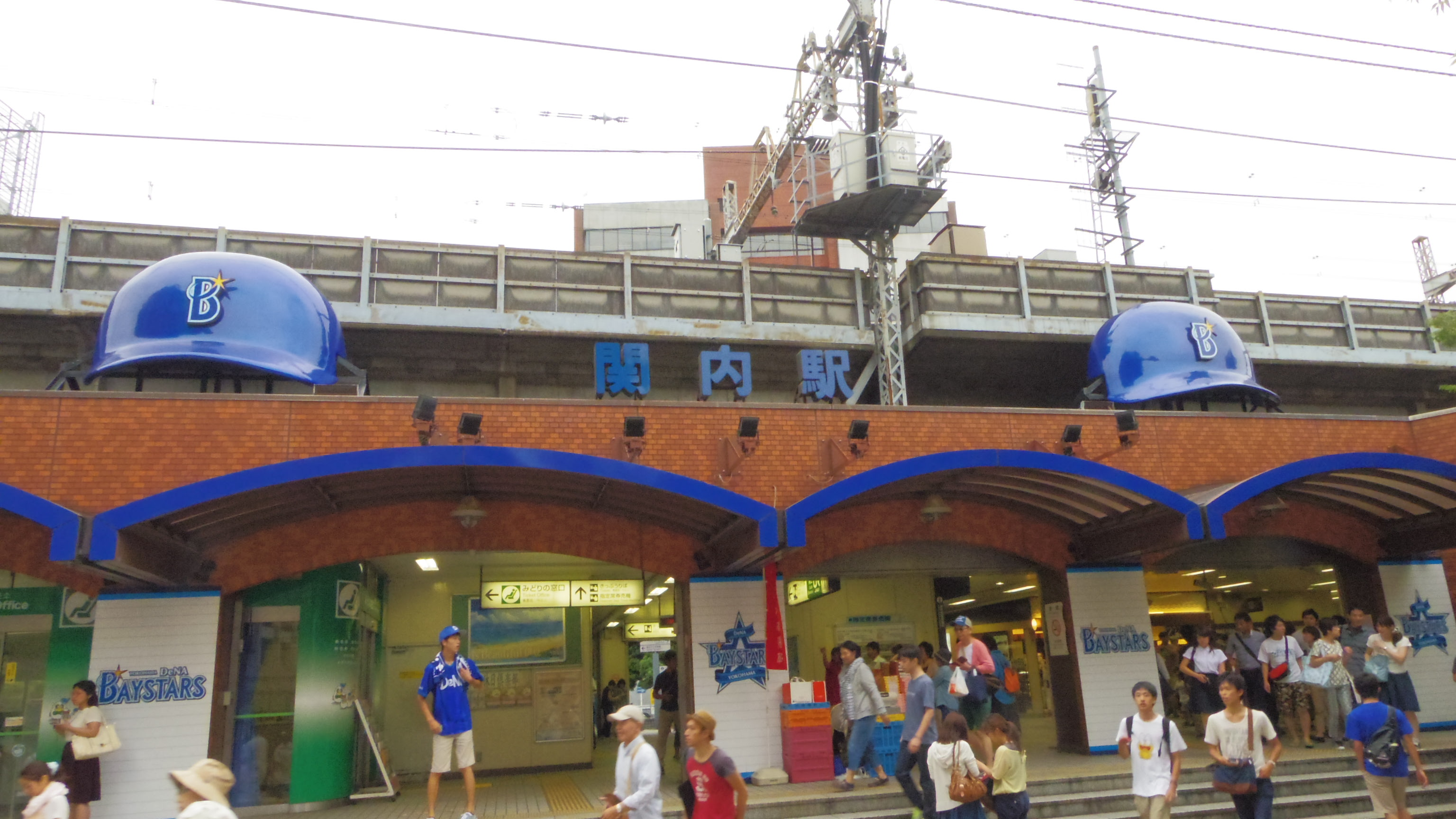 Kannai stations.